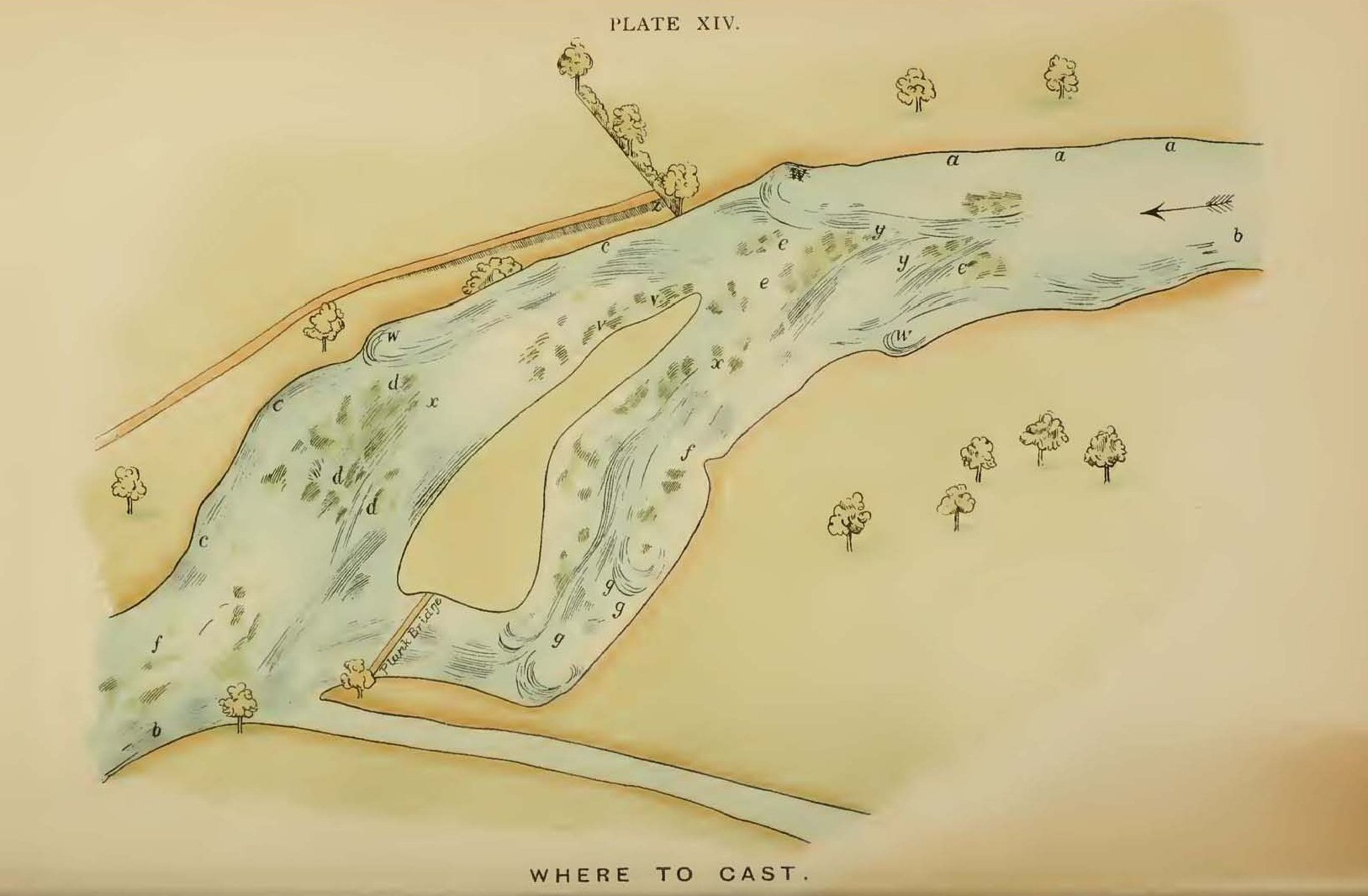 Plate XIV, Where to cast, from Frederic M. Halford's Dry Fly Fishing in Theory and Practice, 4th edition, 1902